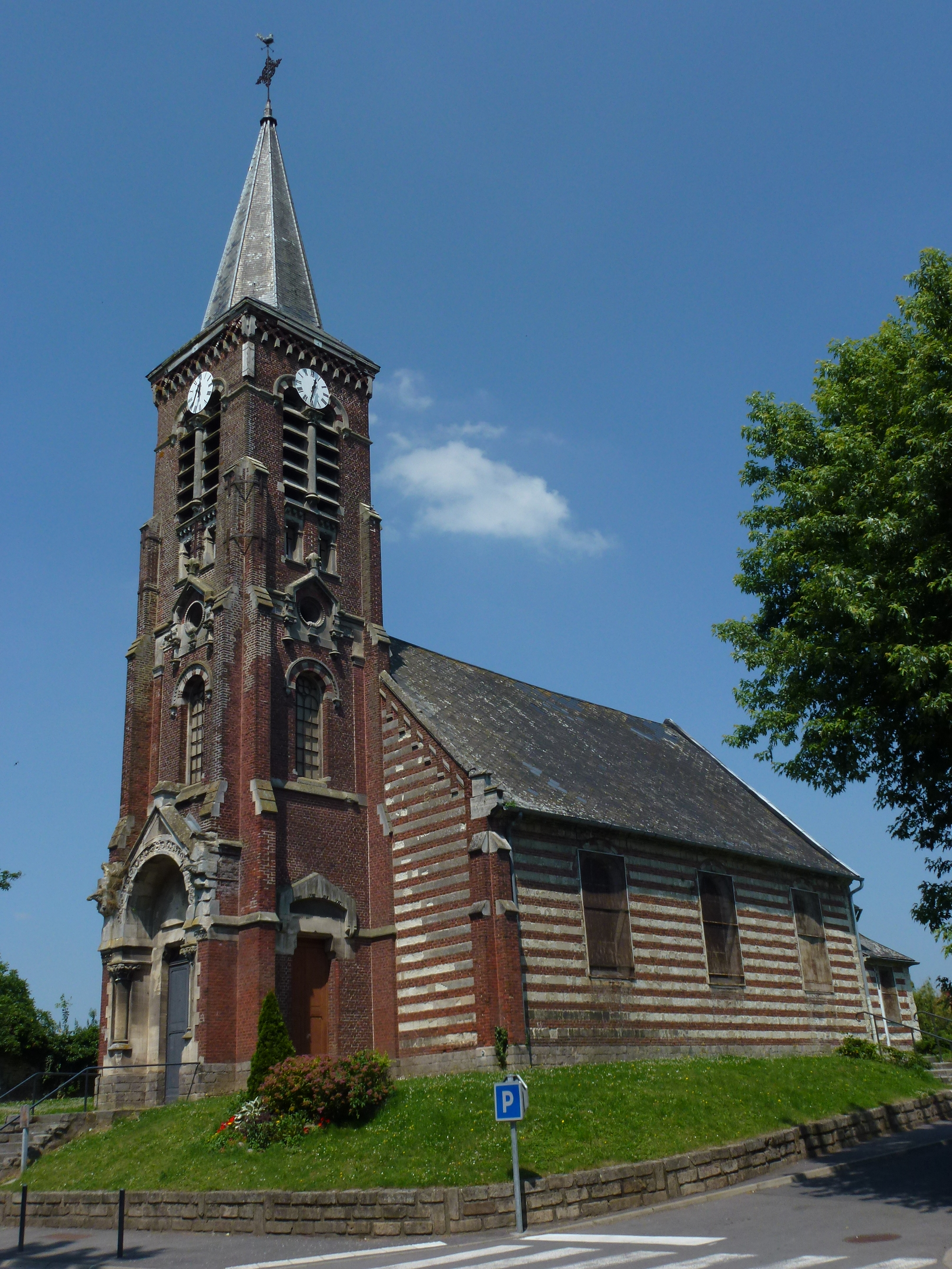 Saultain (Nord, Fr) église